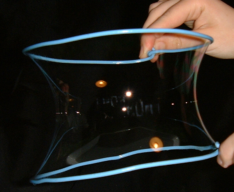 Photo of a soap bubble creating a catenoid